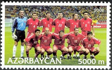 The Turkey national football team on an Azerbaijanian stamp for the 2002 FIFA World Cup